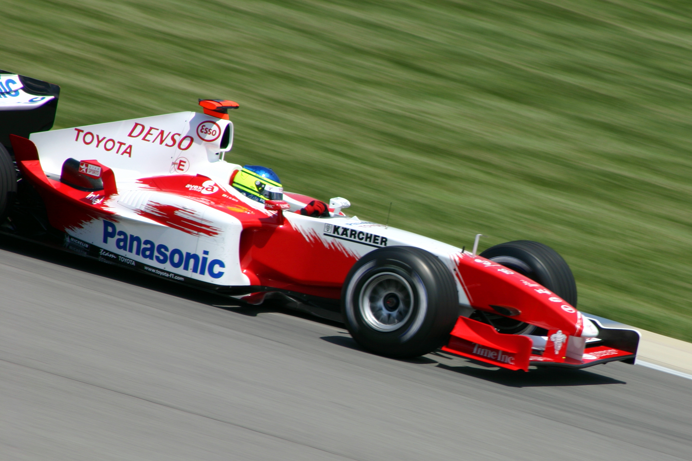 Cristiano da Matta, Indianapolis, 2004